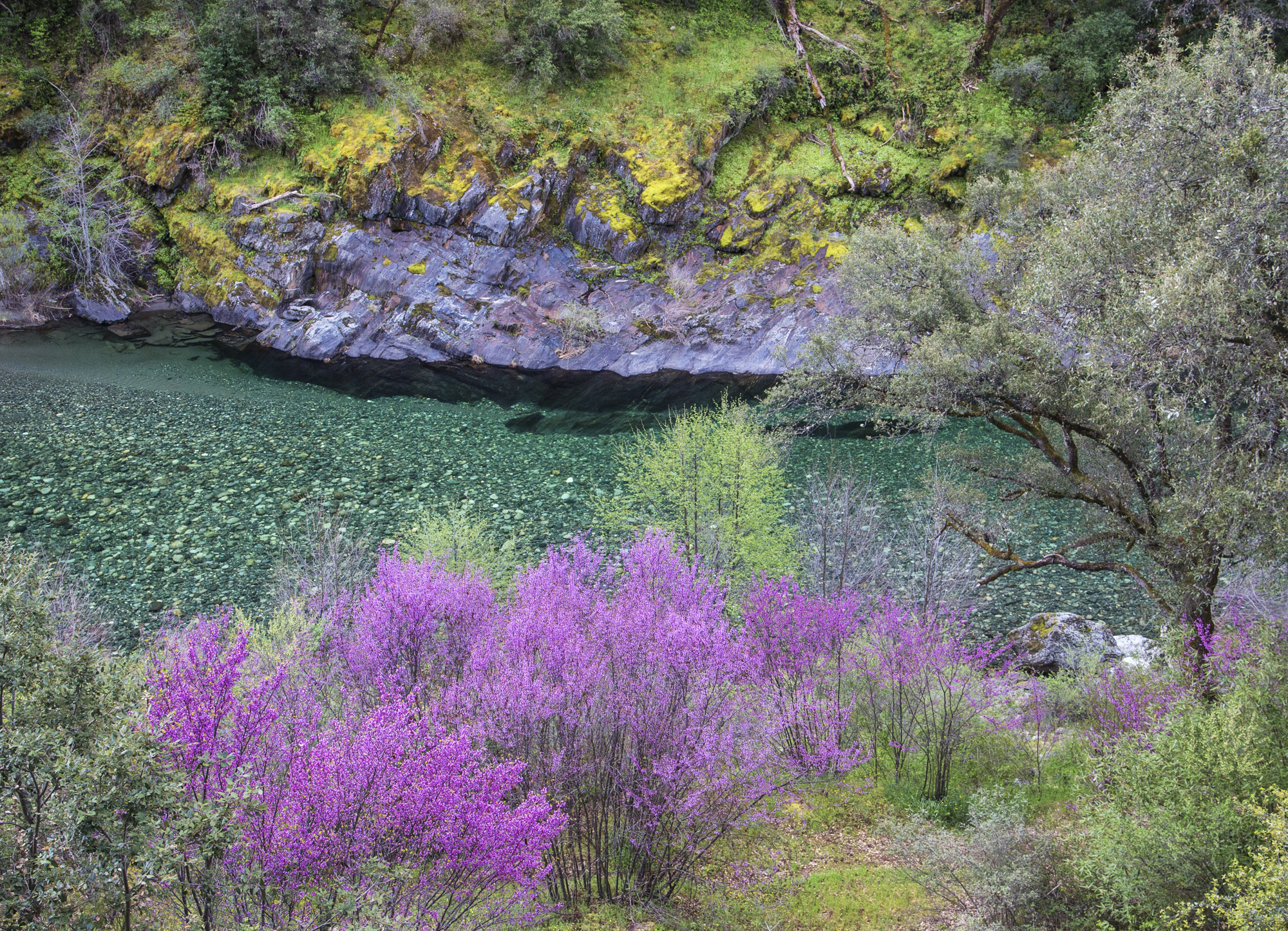 Rivers are an important part of our Nation’s history, economy, and way of life. They were our first “highways” - connecting people and communities. In 1968, President Johnson signed the Wild and Scenic Rivers Act to preserve rivers with certain outstanding wild, scenic, or recreational values. The Act currently protects more than 200 rivers in 35 states and Puerto Rico. The BLM’s National Conservation Lands currently manages 69 of those wild and scenic rivers in 7 states - Alaska, California, Idaho, Montana, New Mexico, Oregon, and Utah - with more than 2,400 river miles and 1,165,000 acres. Follow today’s #conservationlands15 takeover here for wildlife along wild and scenic rivers, a behind the scenes with a BLM river ranger, and stunning wild and scenic rivers for your bucket list. Photo by Bob Wick, BLM